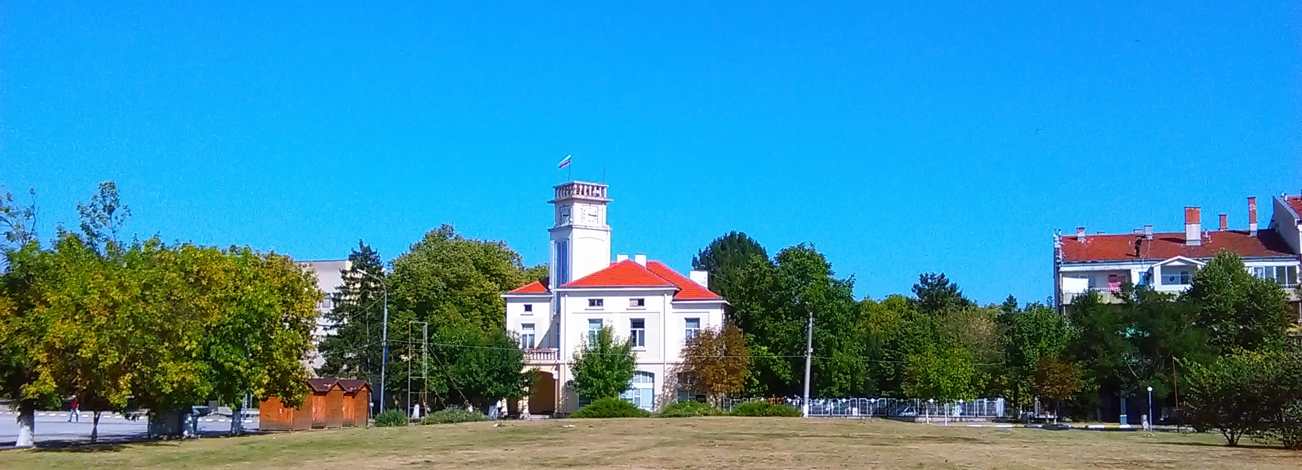 Mayor's place in Kubrat, Razgrad province